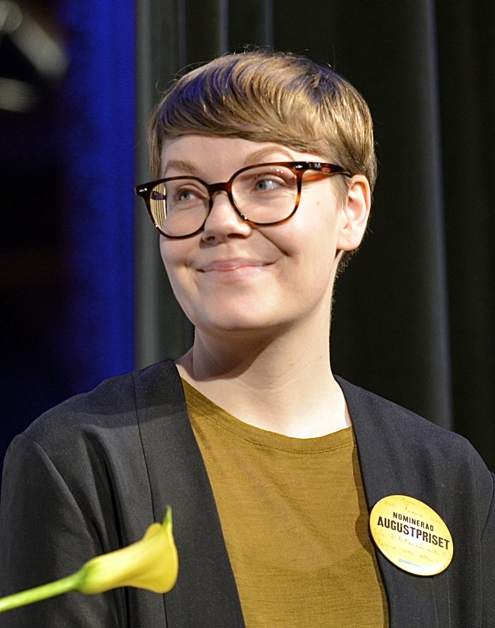 Nominated for the August Prize 2014.